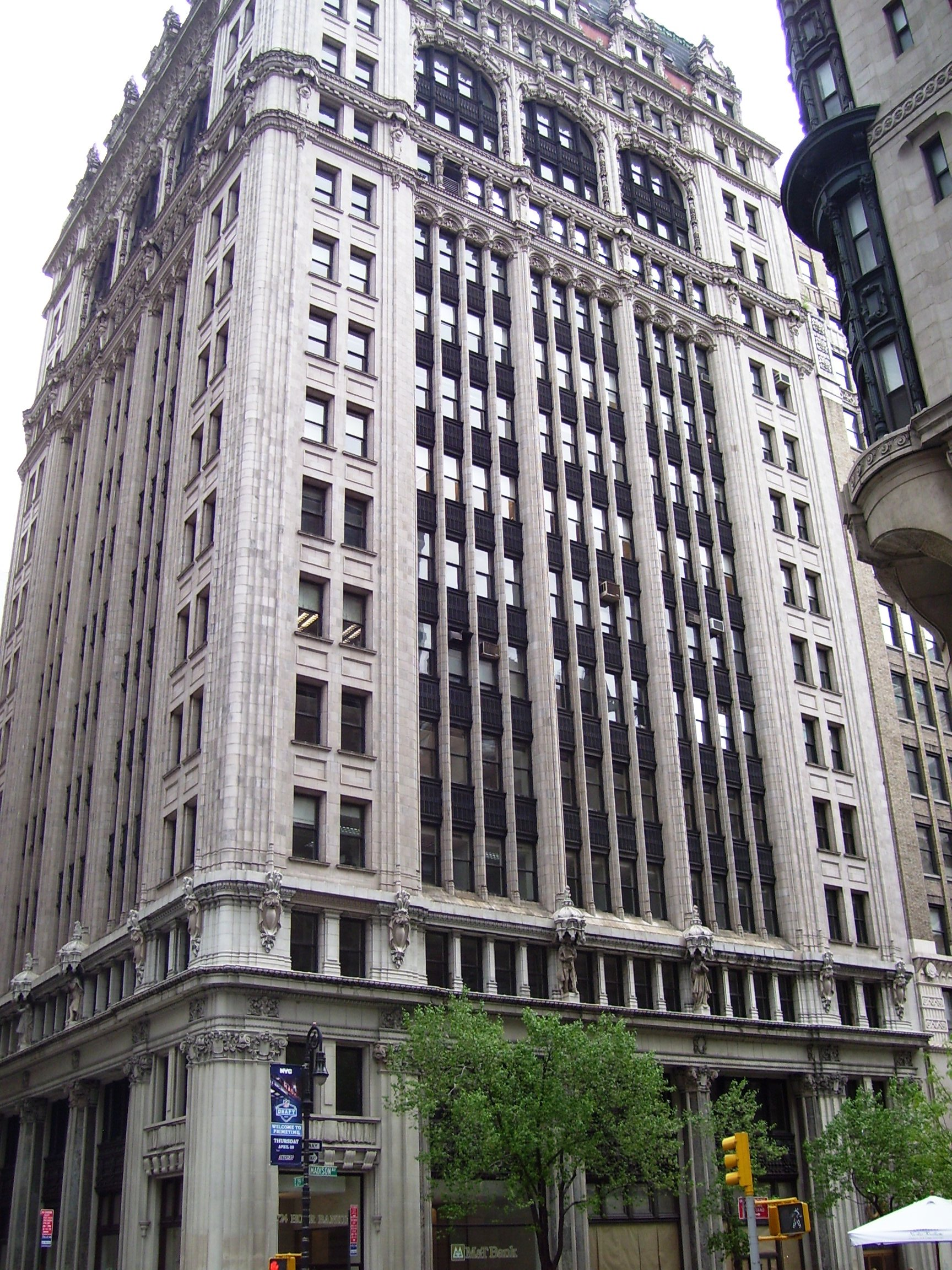 The Emmet Building at 89-95 Madison Avenue on the corner of 29th Street in the Rose Hill neighborhood of Manhattan, New York City, was built in 1912 in the neo-Renaissance style. (Source: "29th Street Songlines")